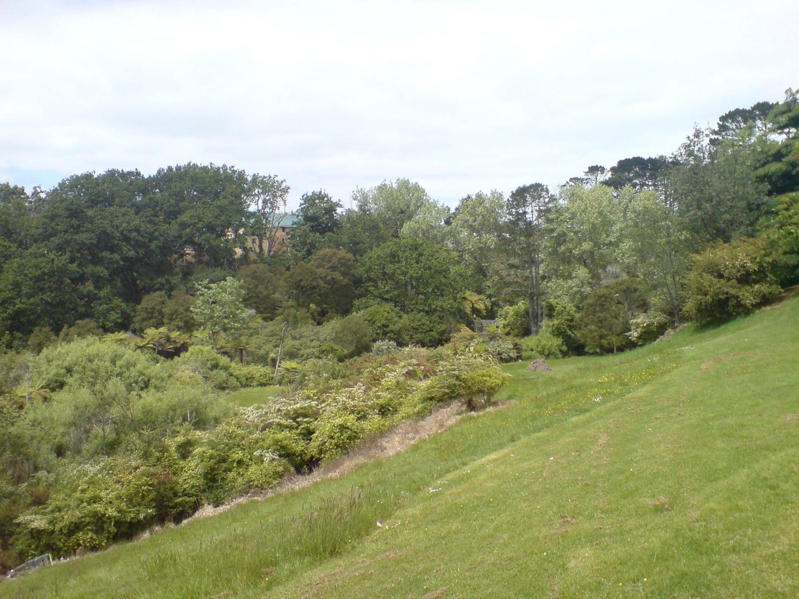 Oakley Creek in Waterview, Auckland City, New Zealand. Looking southeast into the reserve, Unitec campus visible in the distance.